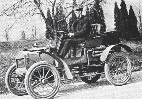 The 1904 Okey runabout was a light car with a twin cylinder, 2-stroke engine delivering 14 HP @ 1000 RPM, planetary transmission, and shaft drive. Although highly praised in the press in 1904, few were made.